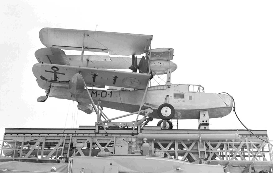 Supermarine "Walrus" MK-IV of the Argentine Navy on their Cruiser "La Argentina" during a visit to San Francisco in 1940.